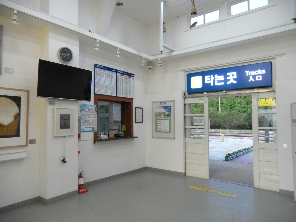 Waiting room of Bangok Station